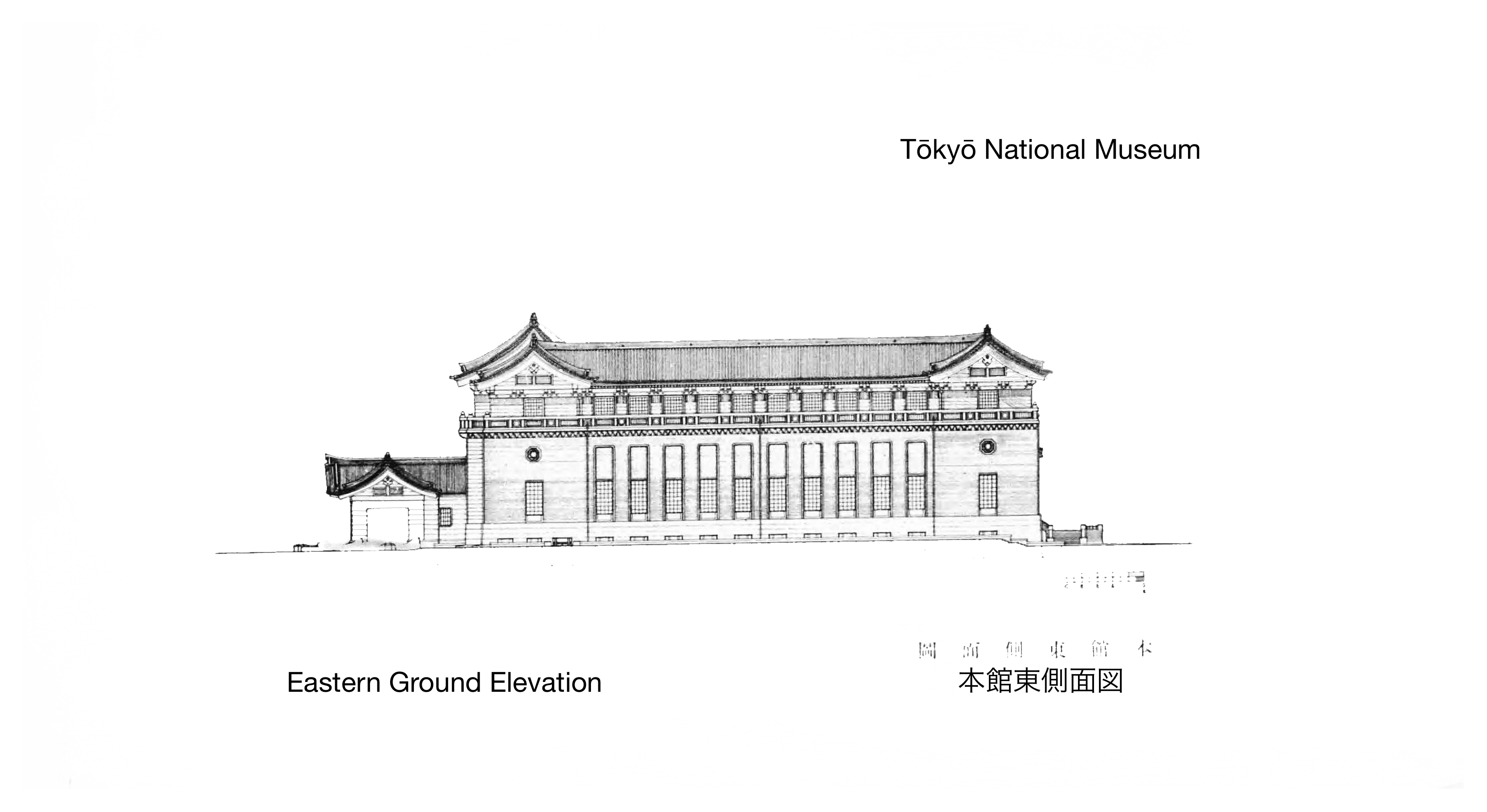 The eastern ground elevation of Tokyo National Museum. The architectural design is in Imperial Crown Style